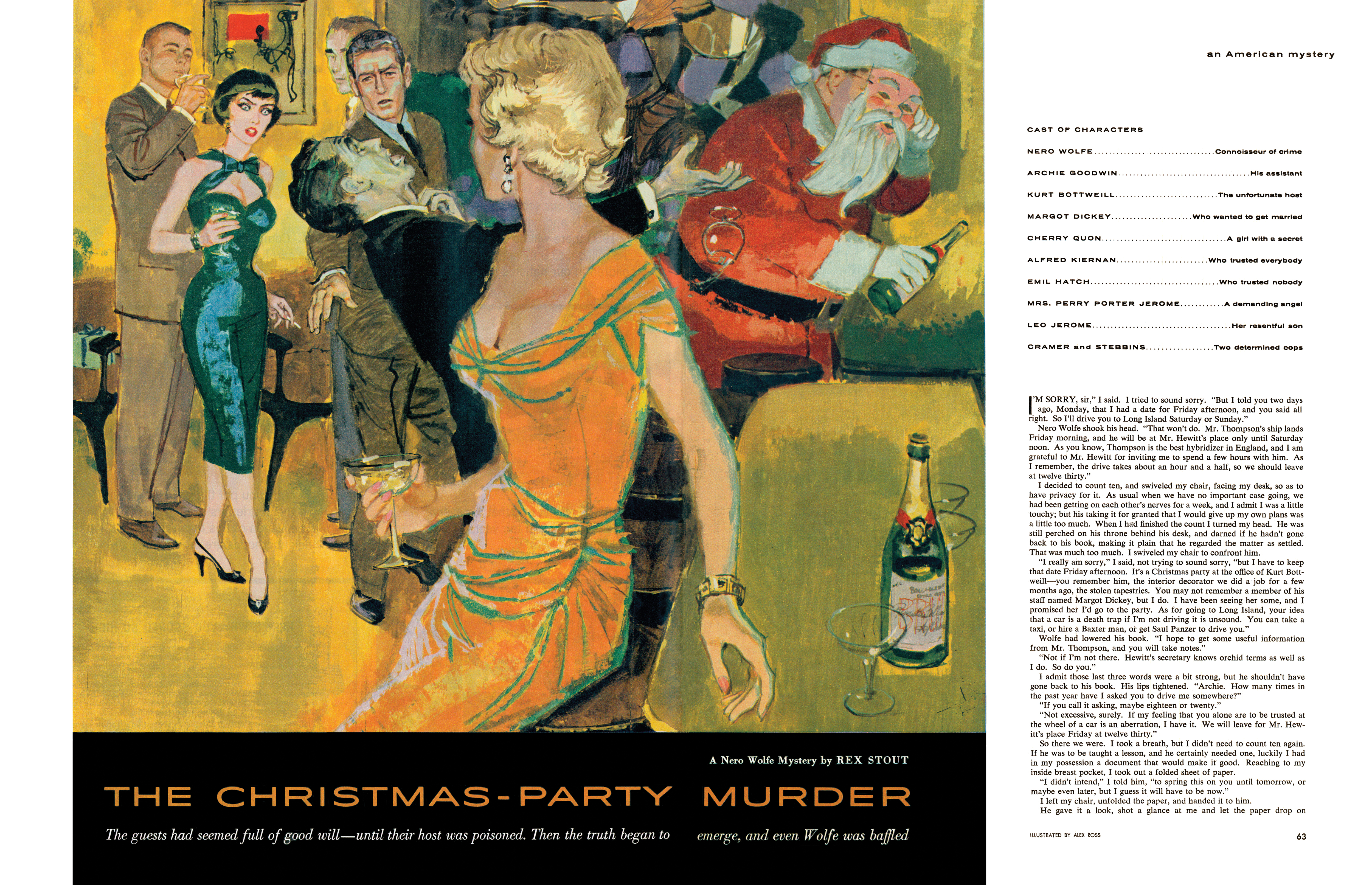 Alex Ross illustration from Collier's Weekly's January 4, 1957, printing of "Christmas Party", a Nero Wolfe short story by Rex Stout